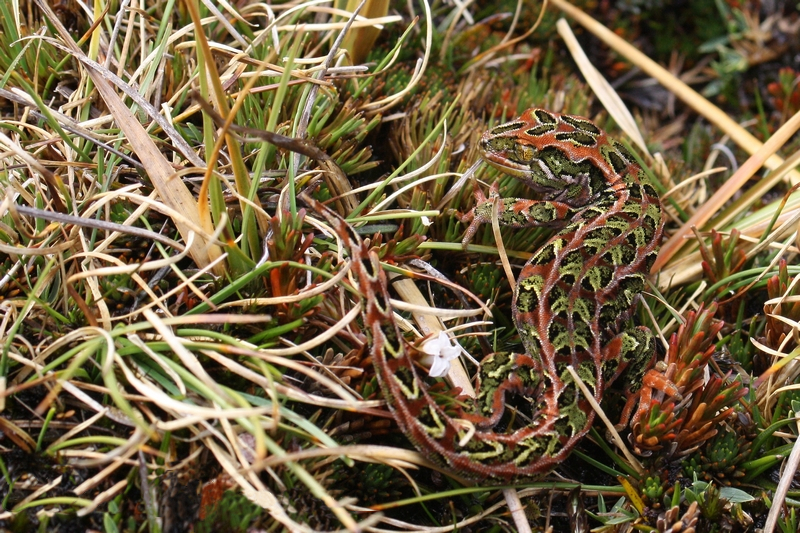 Harlequin gecko, Table Hill, Stewart Island, New Zealand.